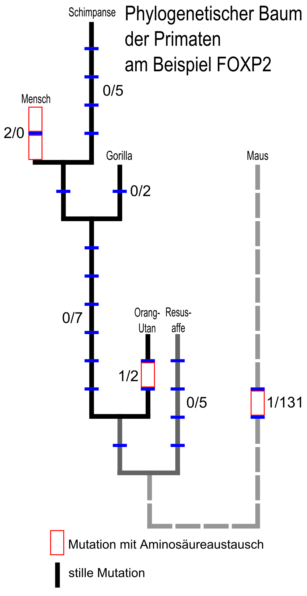 Phylogenetic tree of primates, based on FOXP2-Sequencing results